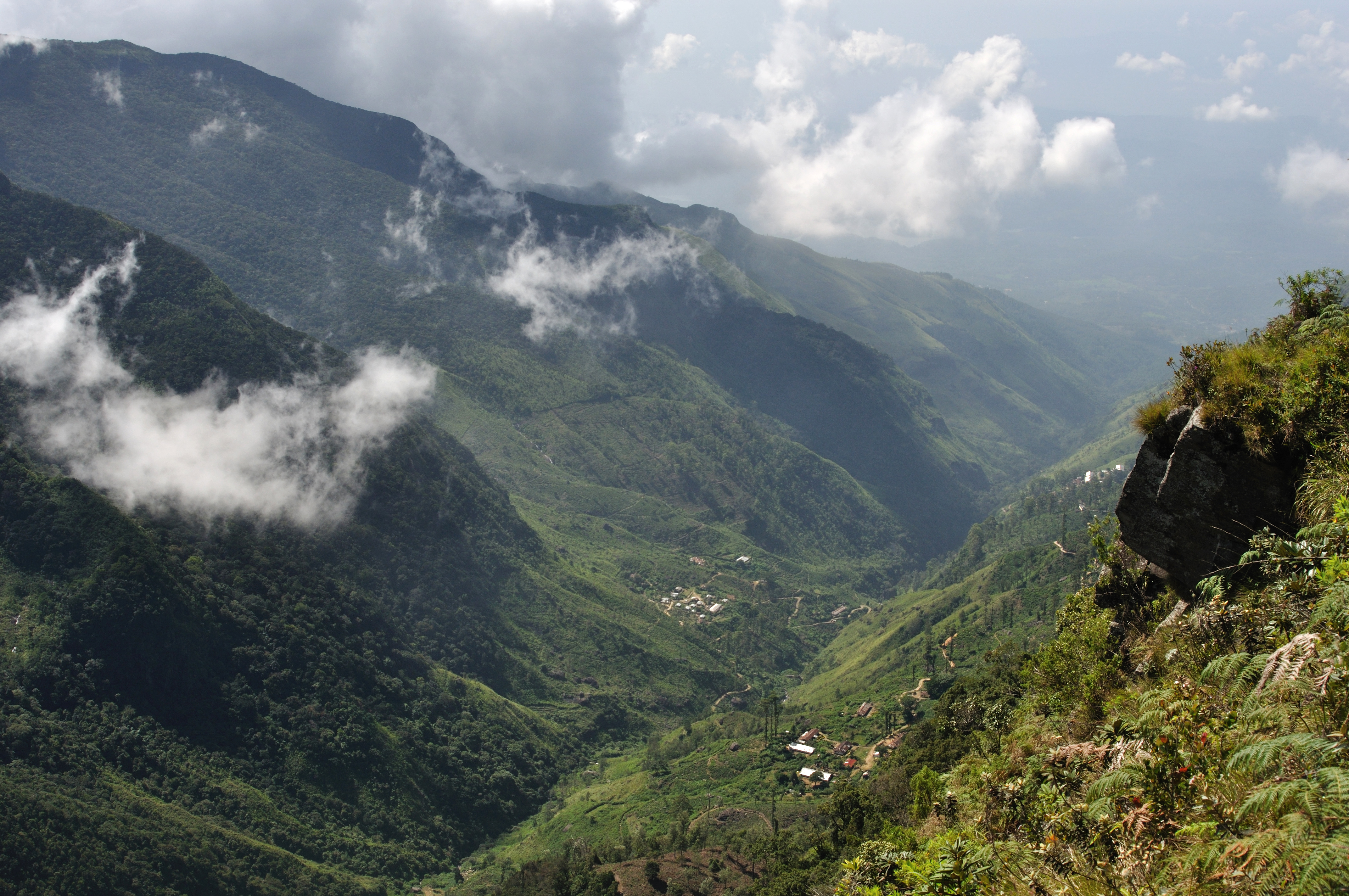 A view from the World's End precipice in the Horton Plains National Park, Sri Lanka. The view looks across the boundary between the Central and Sabaragamuwa Provinces